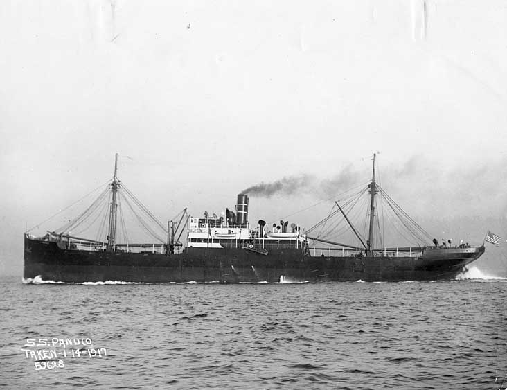 American commercial cargo ship SS Panuco prior to her US Navy service as USS Panuco (ID-1533).